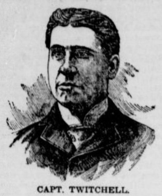 Drawing of Larry Twitchell, captain of the Milwaukee Brewers